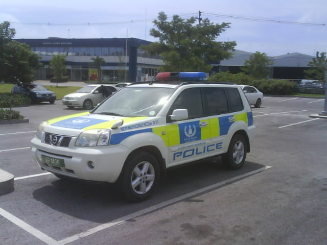 A Nissan X-Trail T31 (Barbados police)